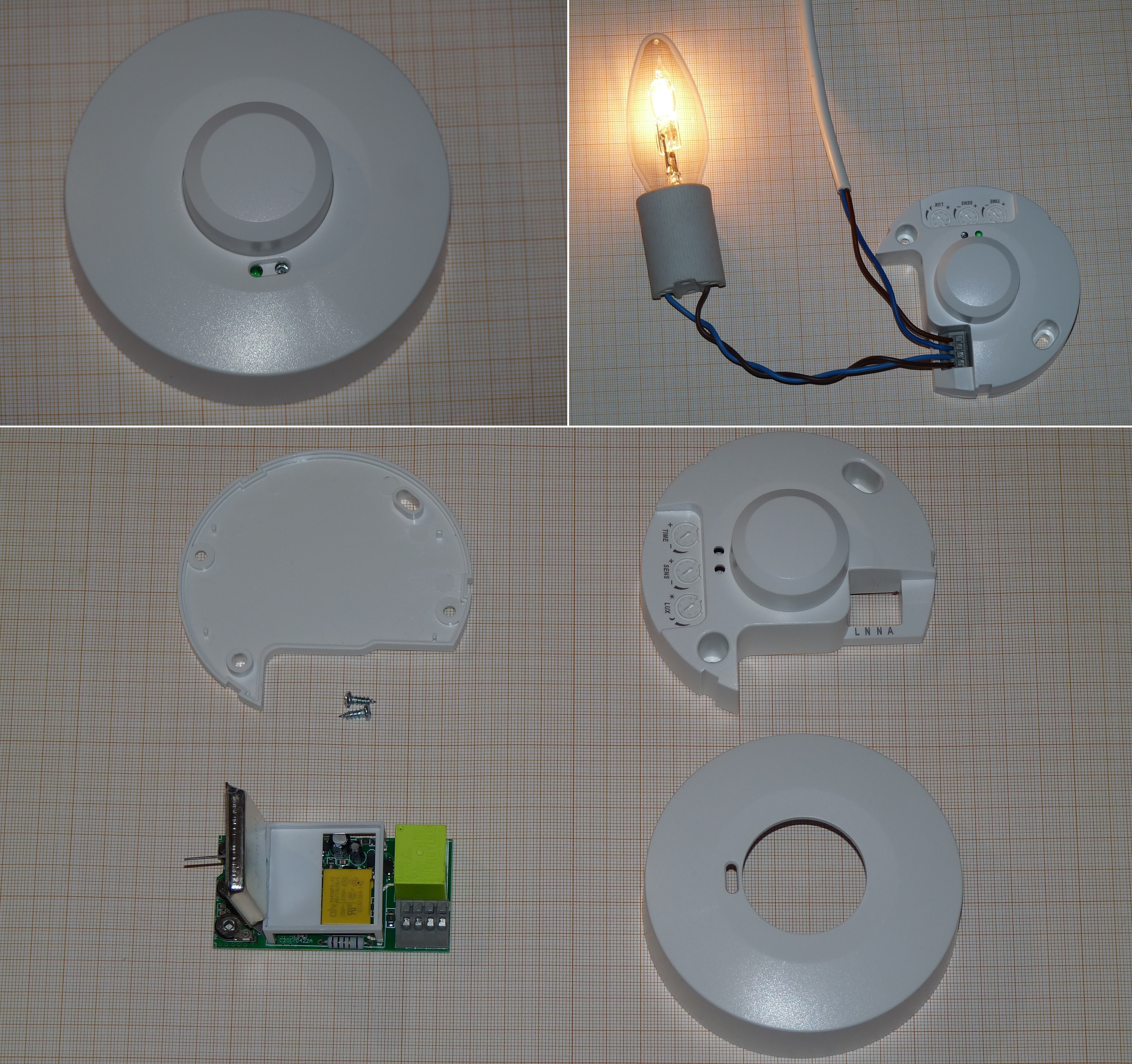 Microwave motion detector